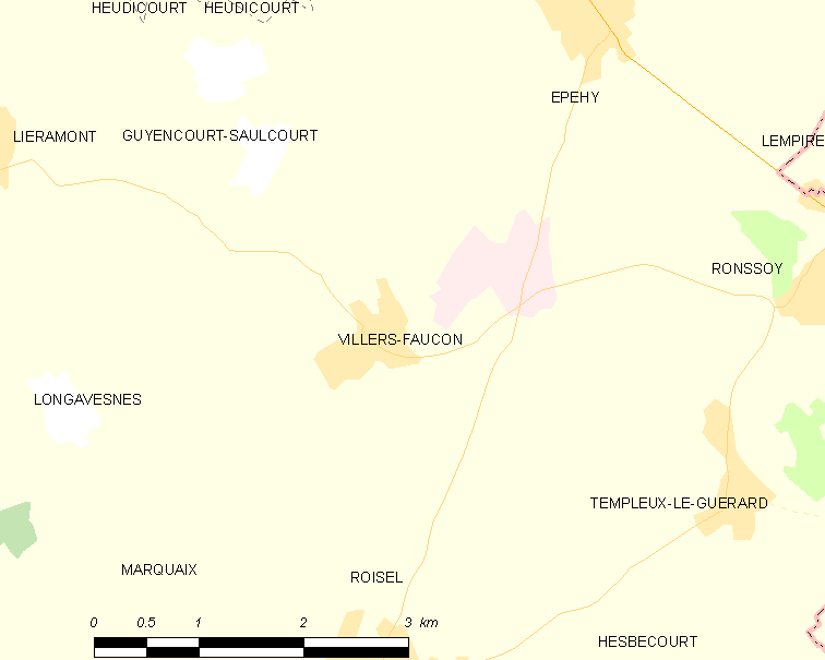 Map of French municipality Villers-Faucon